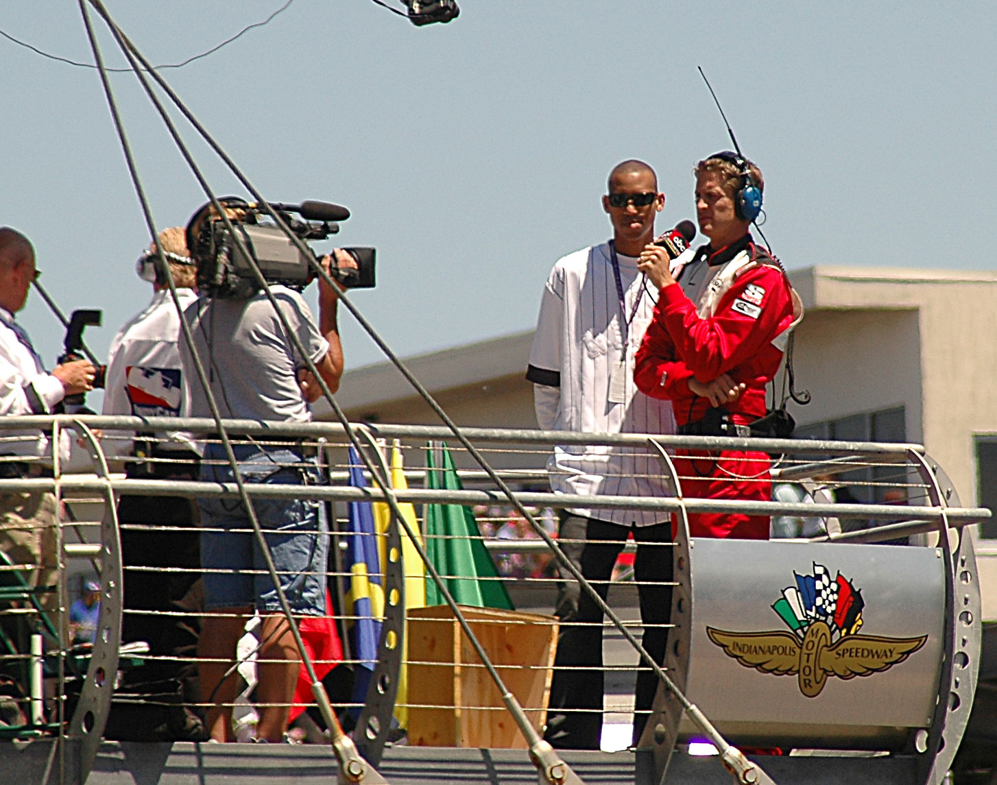 Reggie Miller interviewed before waving the green flag to start the race.